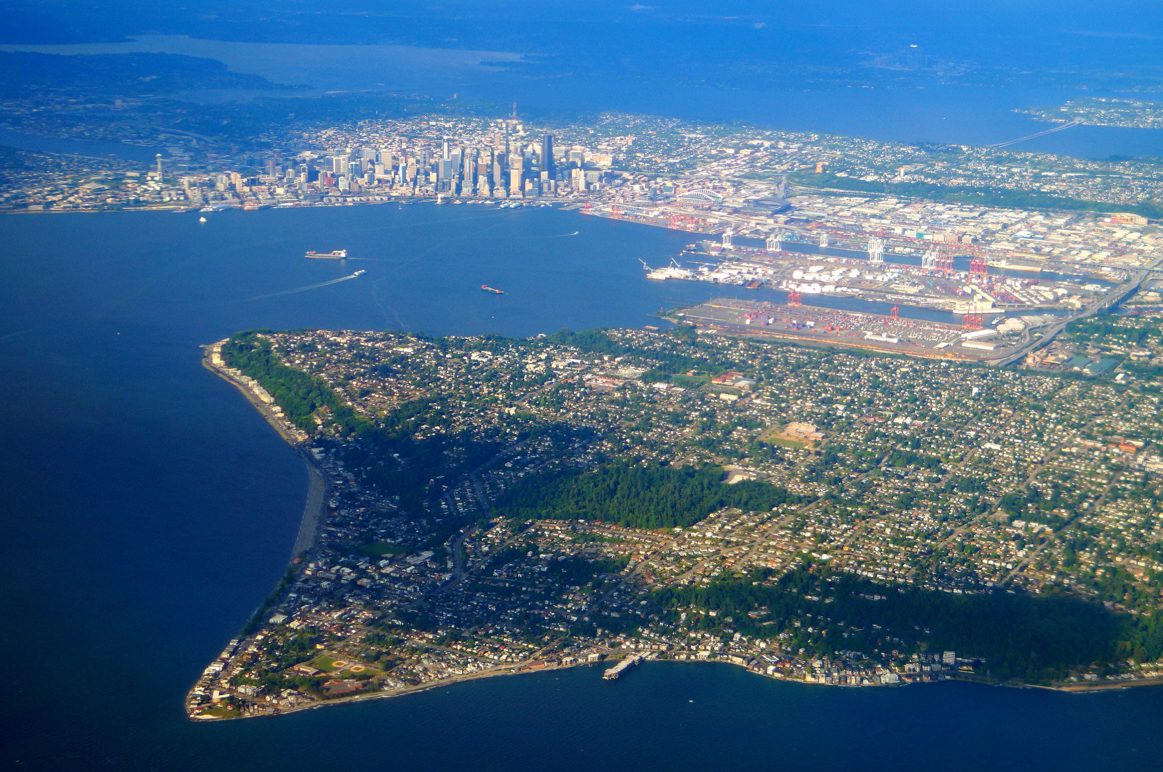 West Seattle with Elliott Bay and Downtown Seattle, June 12, 2014.